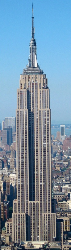 The Empire State Building is a 102-story landmark Art Deco skyscraper in New York City at the intersection of Fifth Avenue and West 34th Street. Its name is derived from the nickname for the state of New York, The Empire State. It stood as the world's tallest building for more than forty years, from its completion in 1931 until construction of the World Trade Center's North Tower was completed in 1972. Following the destruction of the World Trade Center in 2001, the Empire State Building once again became the tallest building in New York City and New York State.